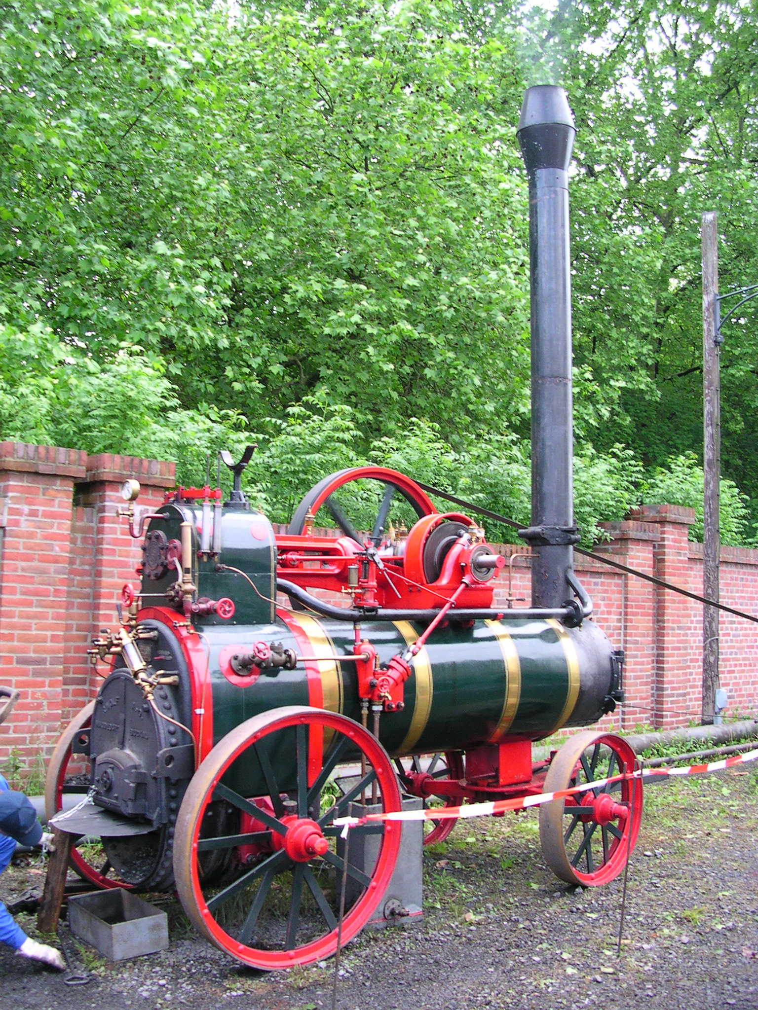 5th steam festival in Bochum, Germany 2007. Wolf locomobile build in 1919